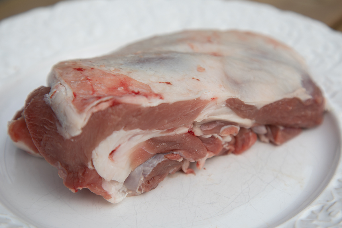 Roast lamb, top side